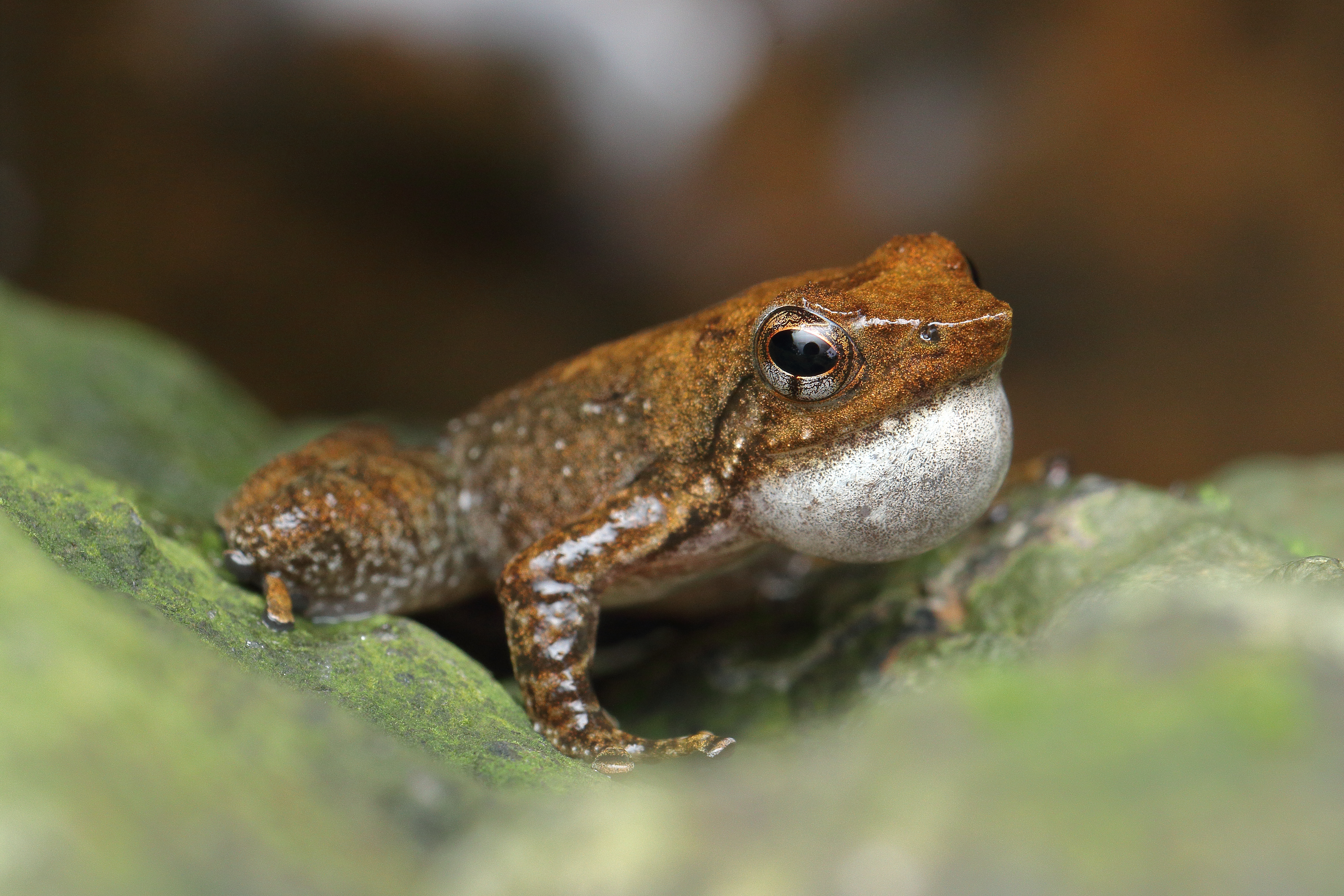 A male with vocal sac bulged for calling at daytime in a stream.